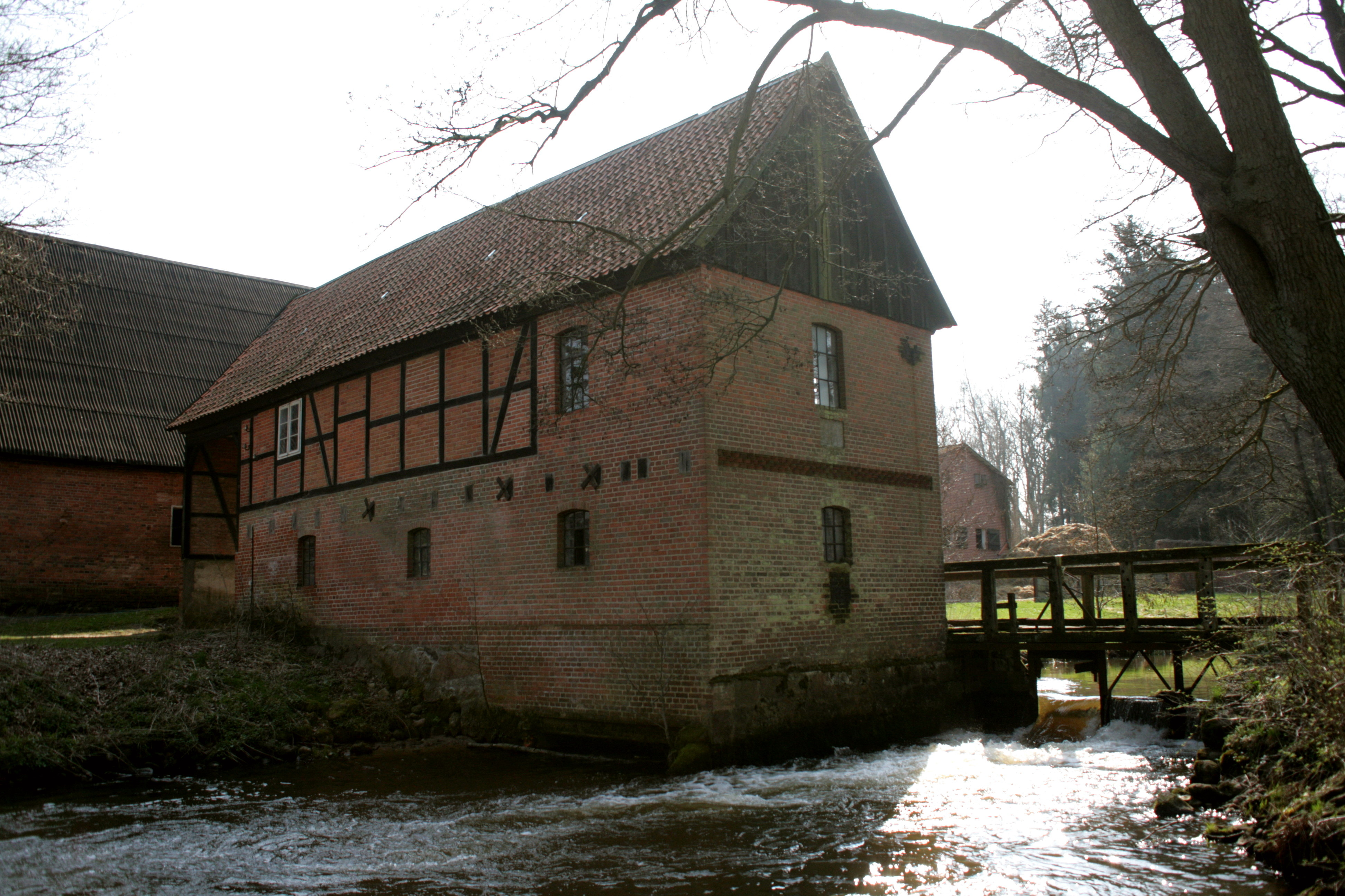 Wassermühle Wohlenbüttel, Wohlenbüttel 2 in Oldendorf (Luhe)